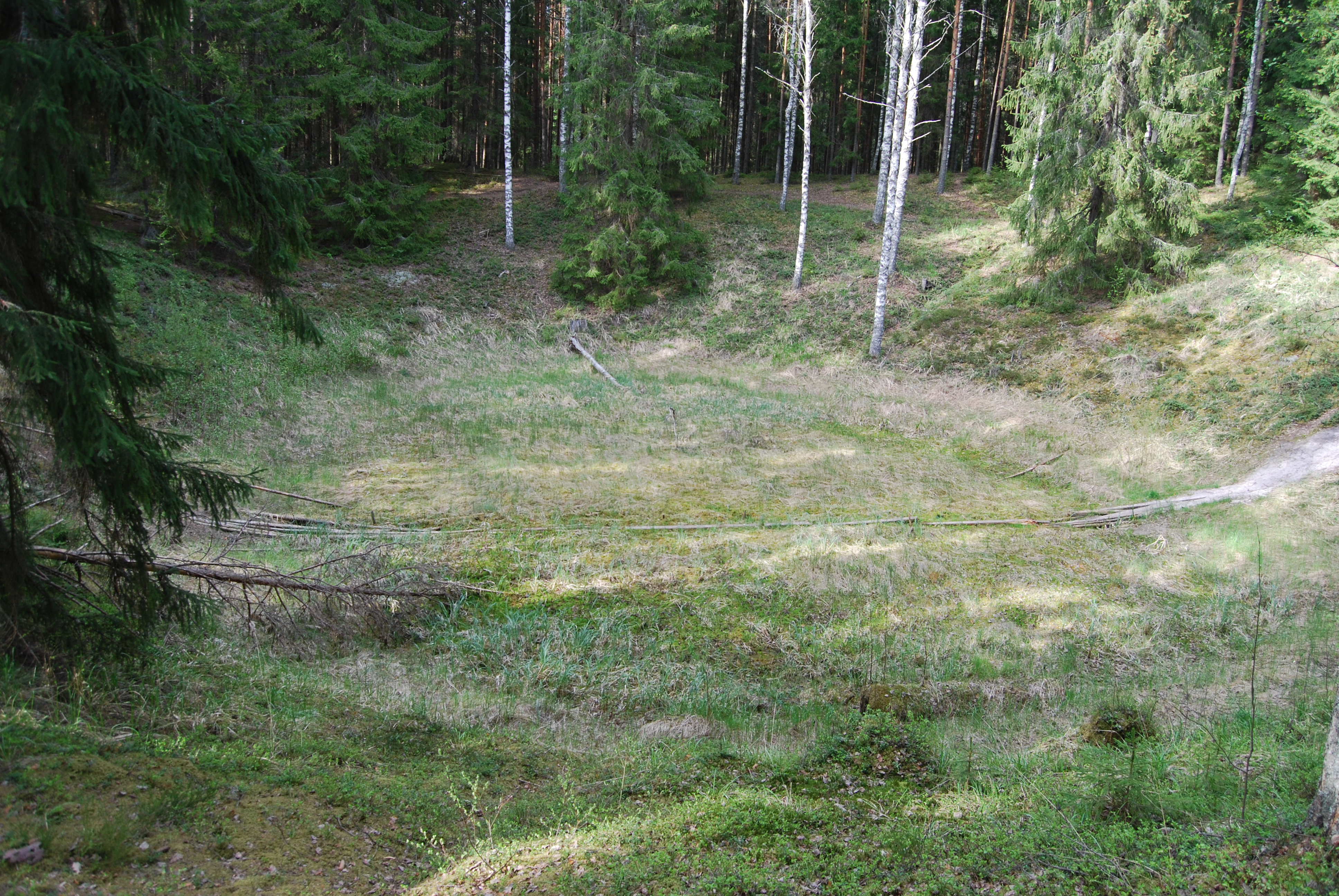 Ilumetsa crater, Orava Parish, Põlva County Estonia